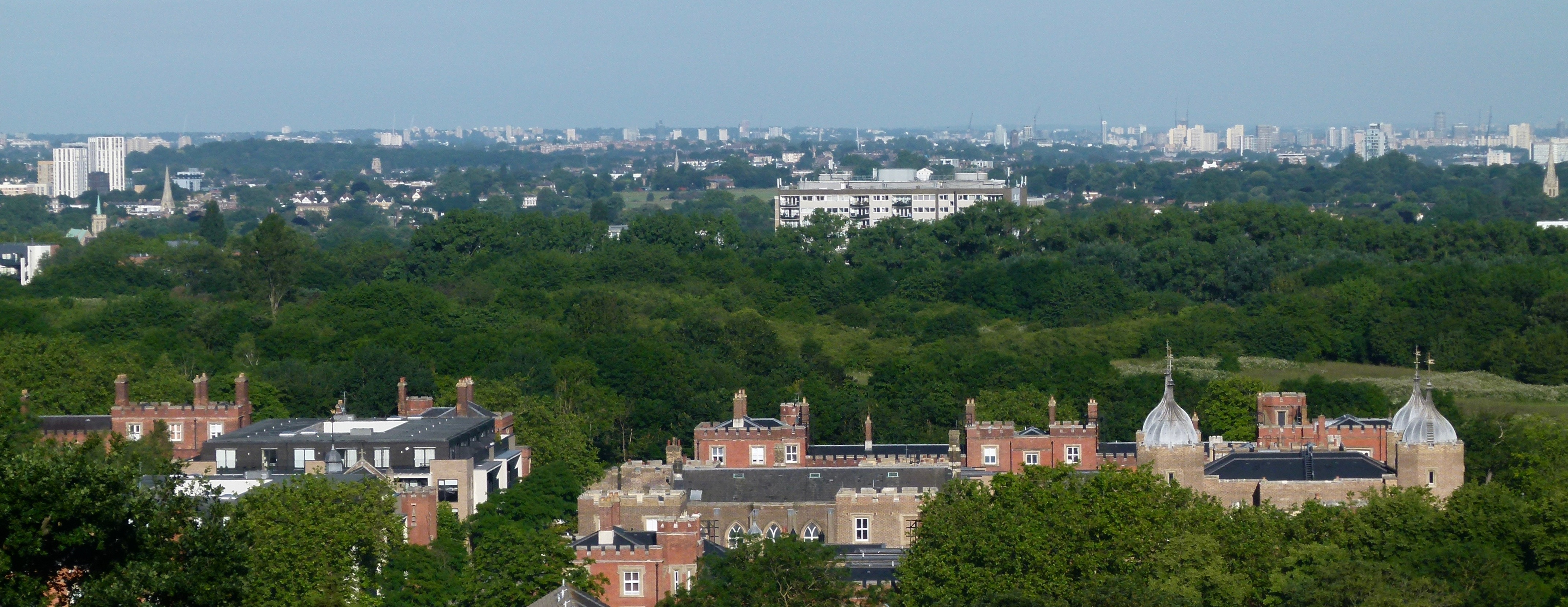 View from Shooters Hill of Woolwich Common and the former Royal Military Academy in Woolwich, South-east London, UK. In the background Blackheath, Lewisham, Greenwich and other parts of South London.